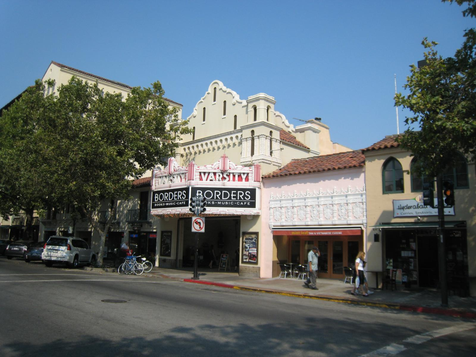 456 University Avenue, Palo Alto, CA 94301 975 Seats Built 1927 THSA Conclave 2008